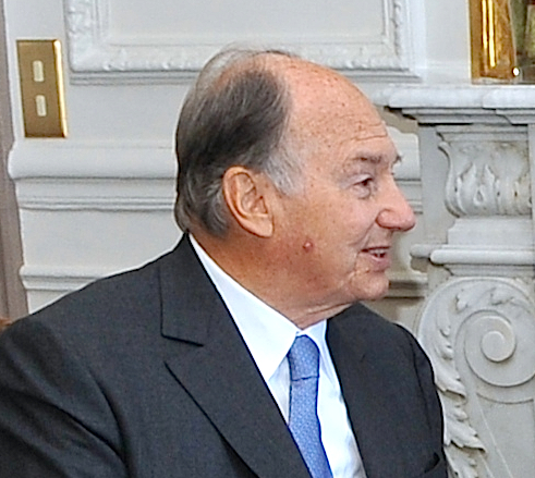 Aga Khan IV